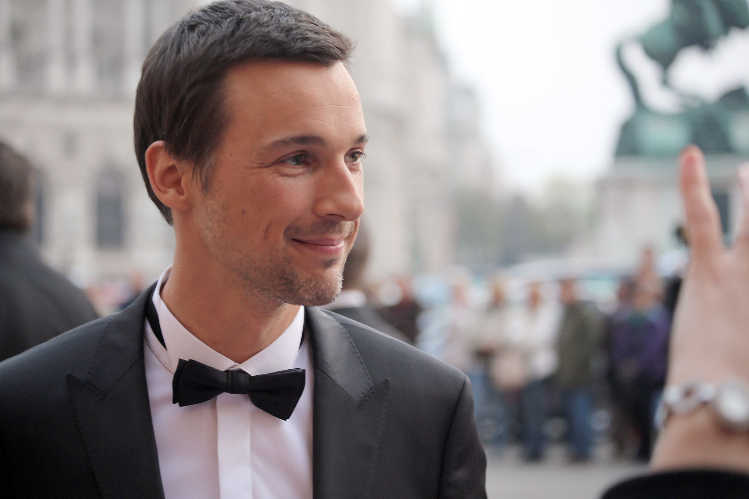 Florian David Fitz at the Romy film awards (Hofburg Imperial Palace in Vienna)